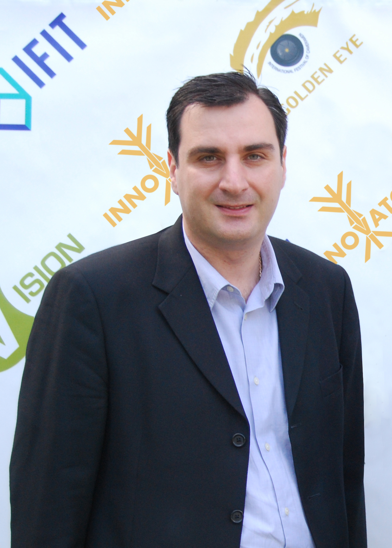 This picture was taken during the festival of "Golden Eye"